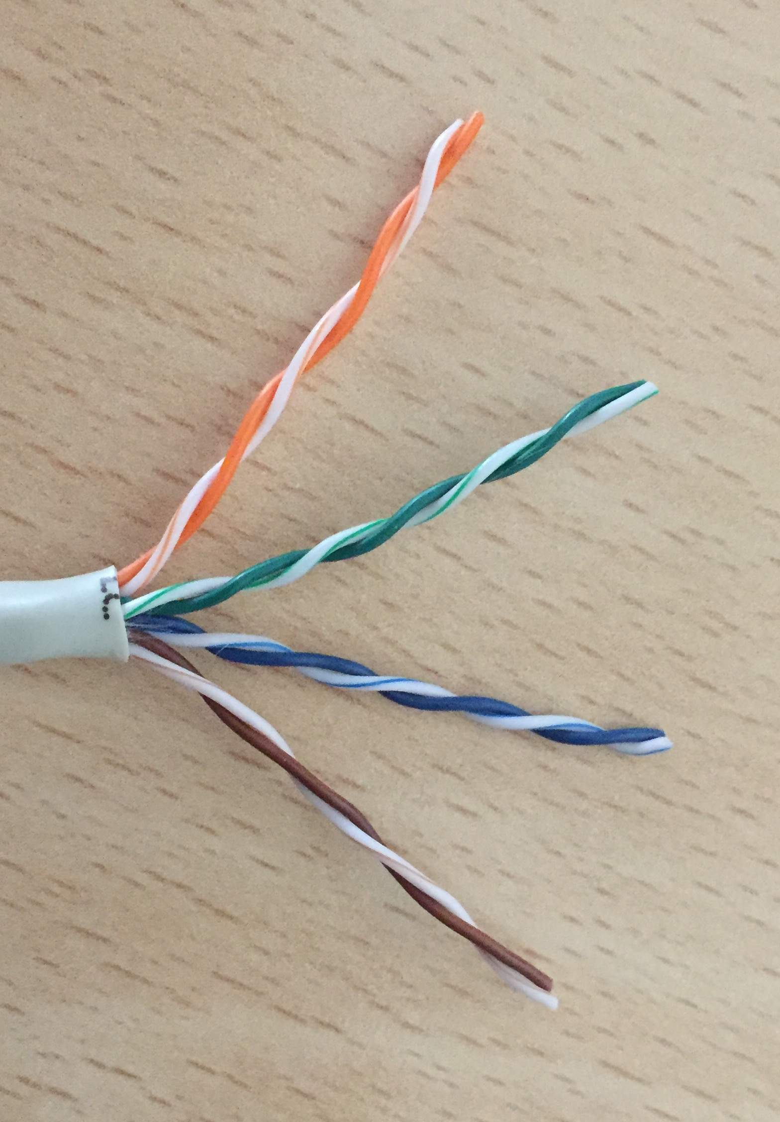 Do it yourself. Make UTP (Unshielded Twisted Pair) and connect RJ45 connector. Step 2: correct sequence of pairs.